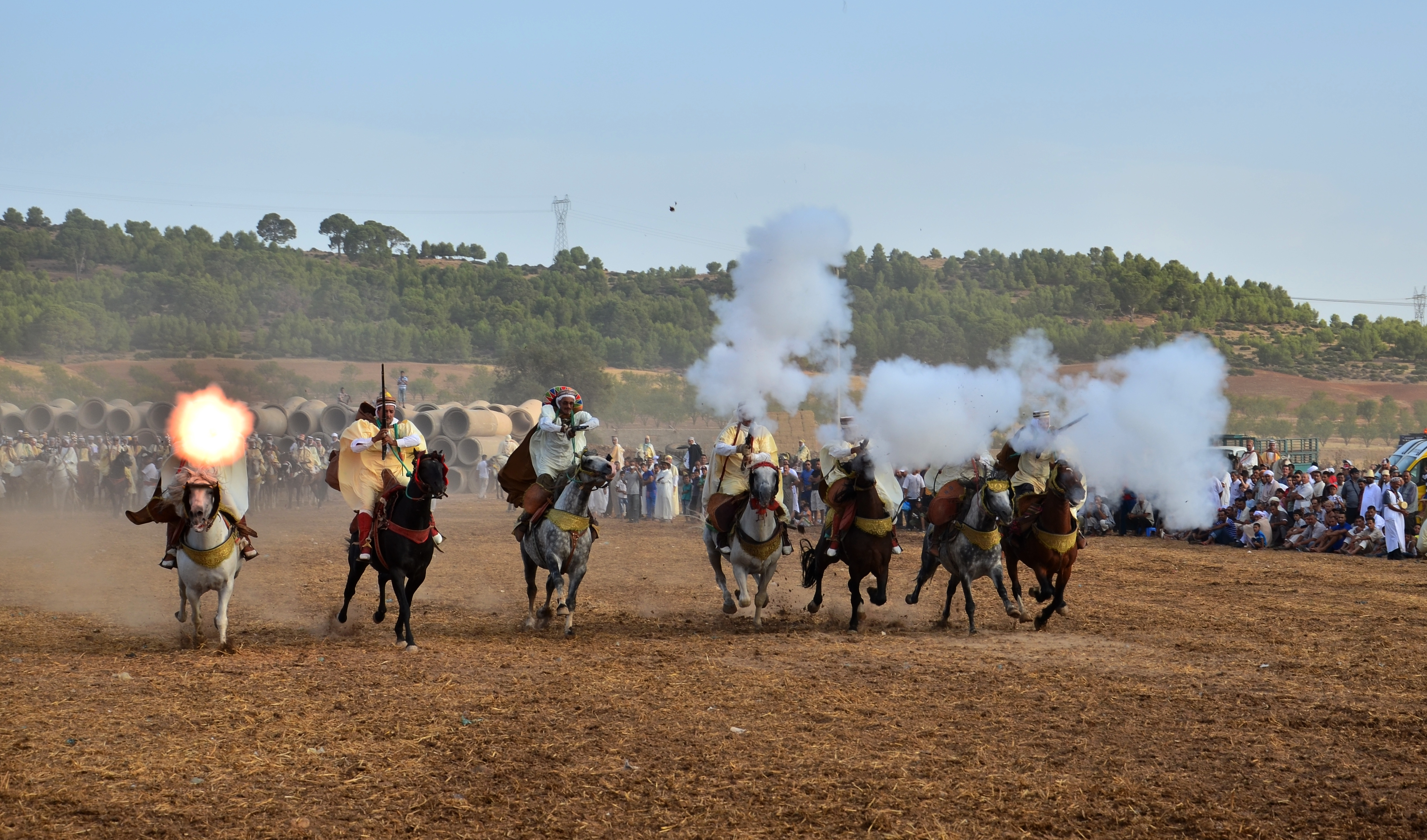 This is an image with the theme "Play" from: Algeria